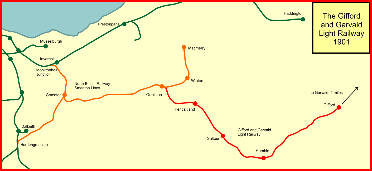 System map of the railway lines to Smeaton and the Gifford and Garvald Railway in Scotland in 1901